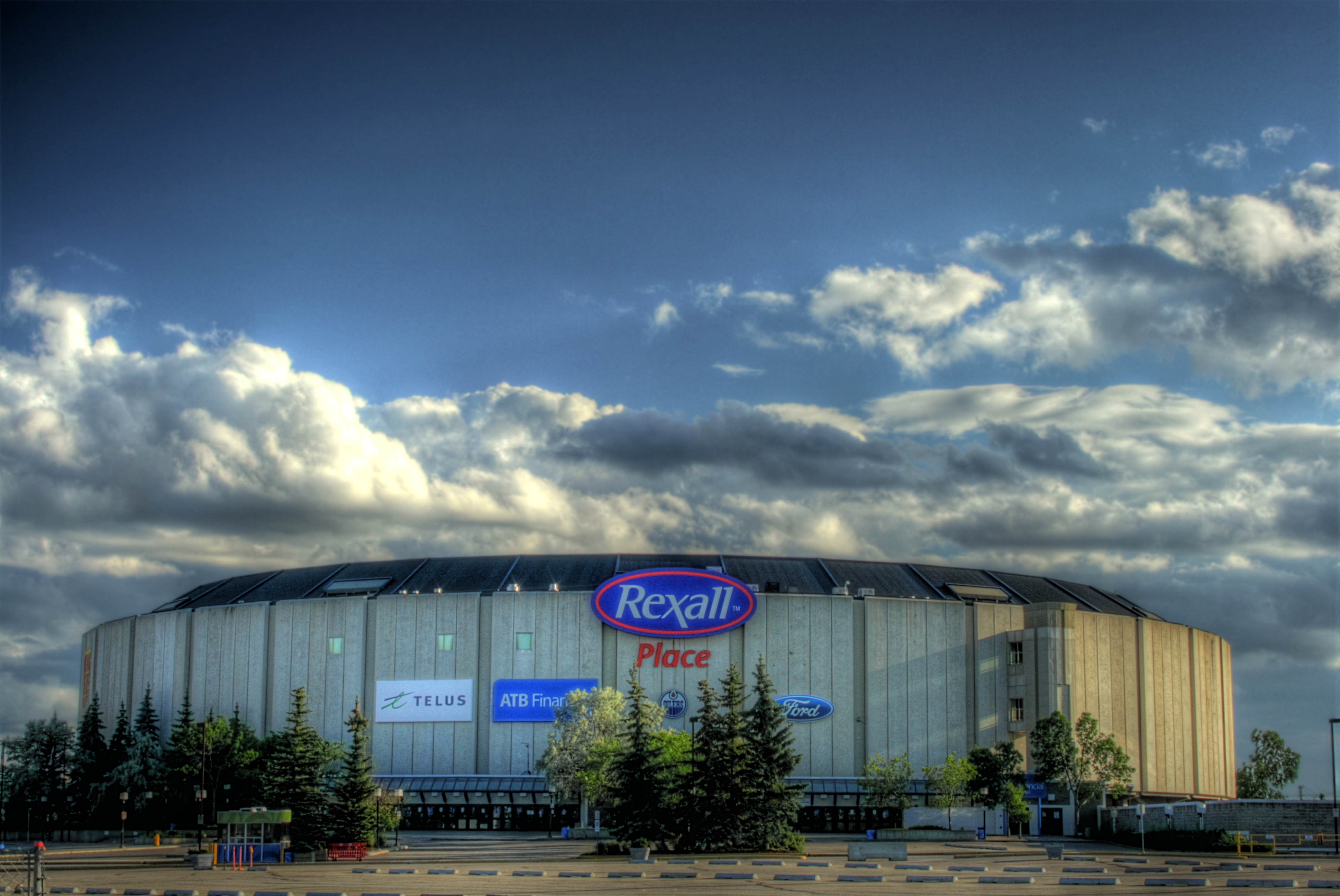 The Rexall Place arena in Edmonton, Alberta, Canada.